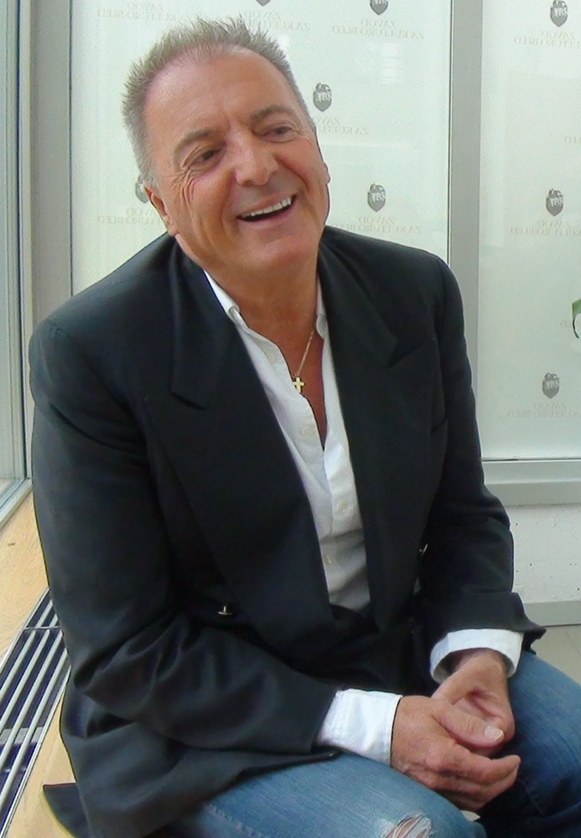 American actor Armand Assante, board member of the Bled Film Festival, interviewed by "Za misli", Slovenian media.